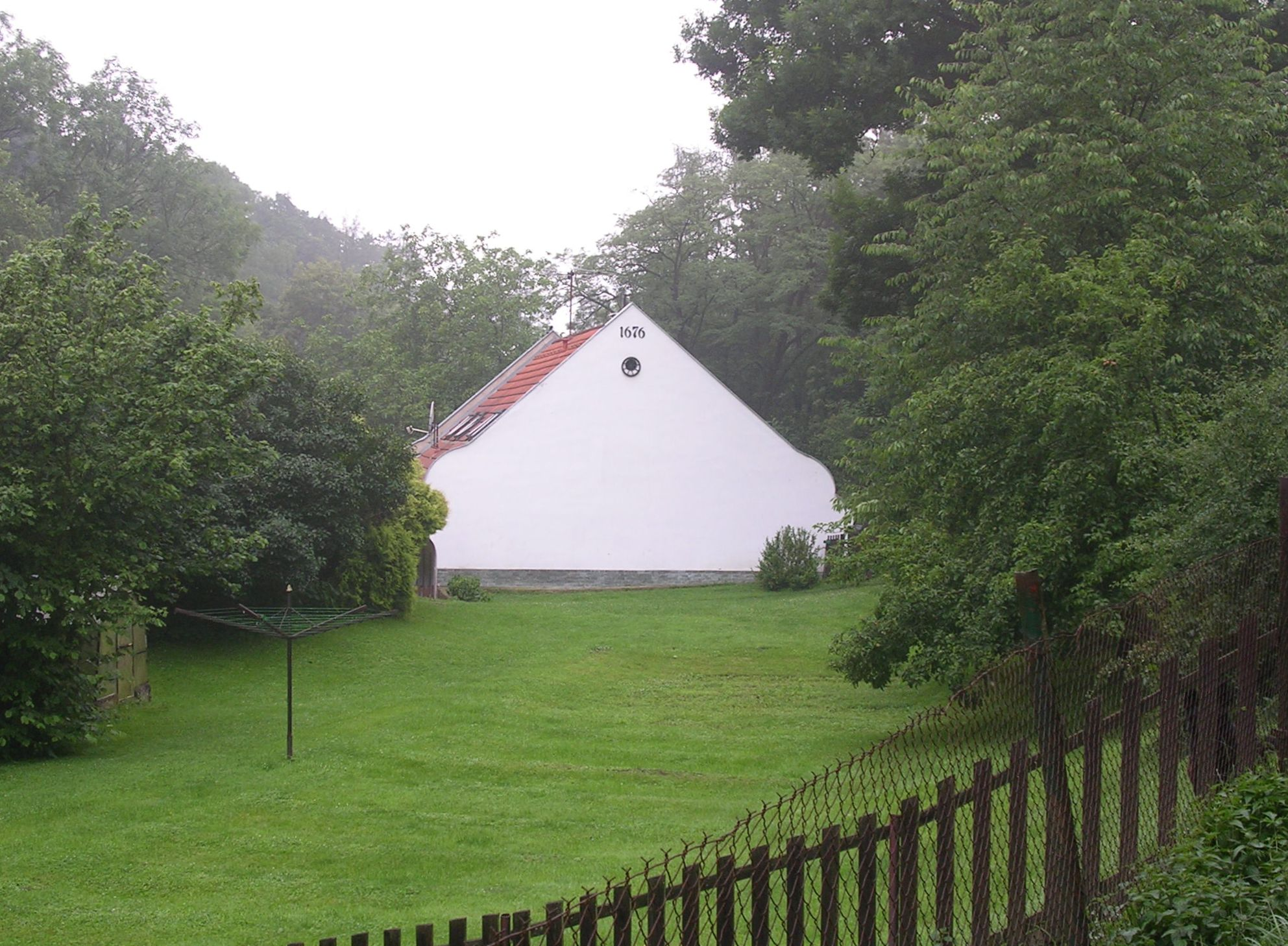 Čimice, Prague, the Czech Republic. Drahan Mill. - Google Maps - Google Earth